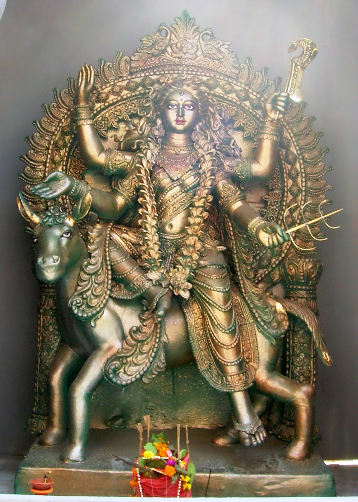 Devi Kalratri, Sanghasri, Kalighat, Kolkata, 2010.